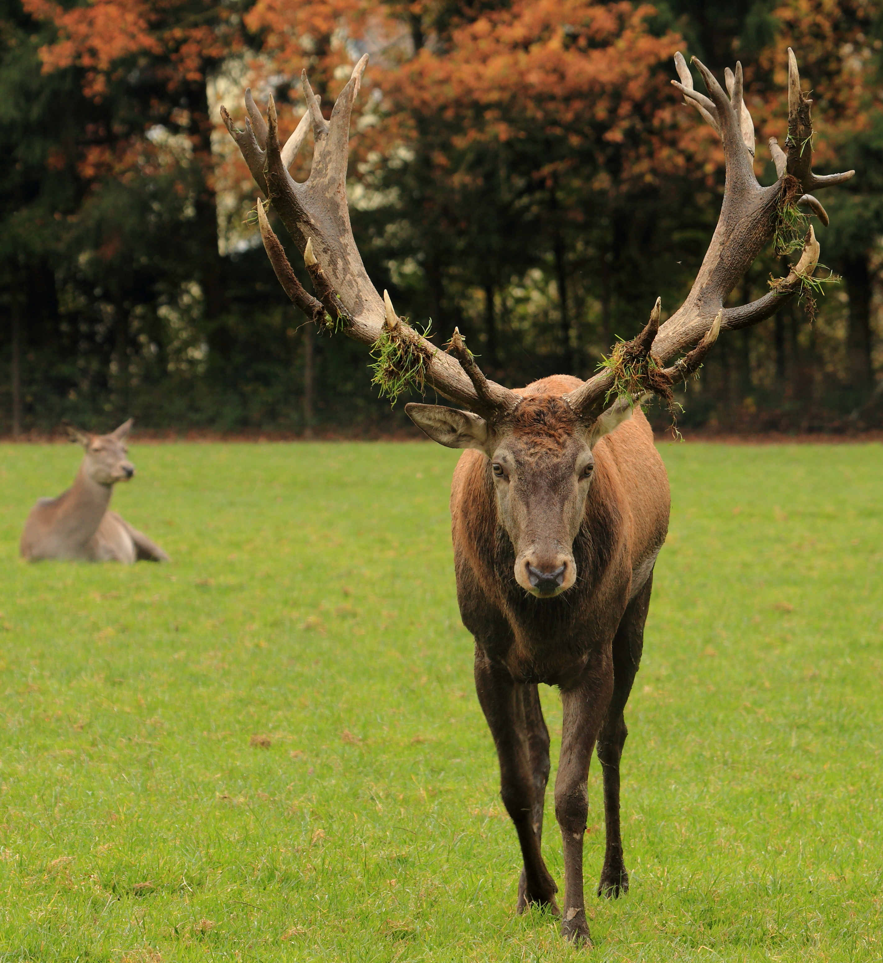 A red deer (cervus elaphus) stag's antlers covered with grass